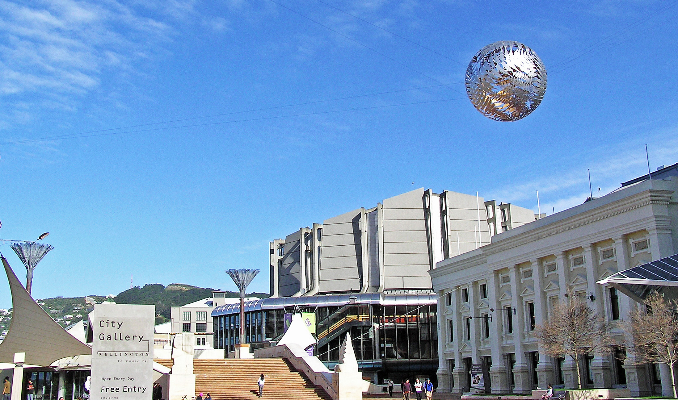 Art Ferns & Civic Square in Wellington, New Zealand